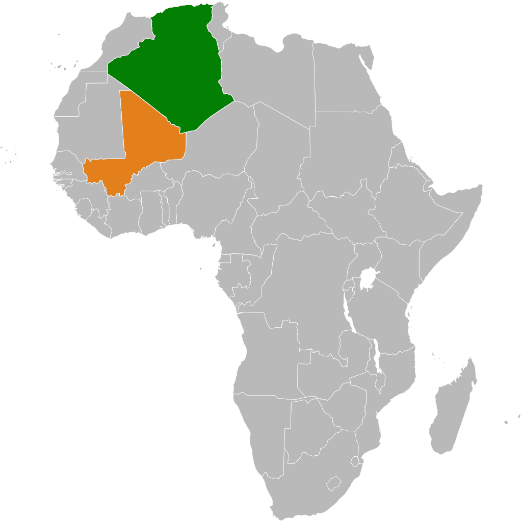 Map highlighting Algeria and Mali.